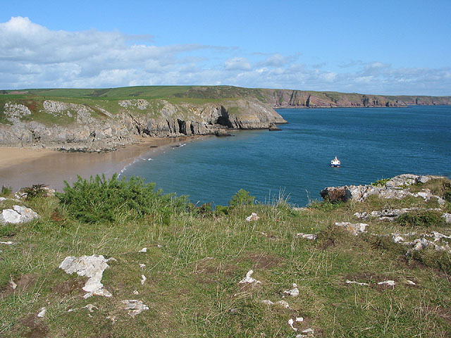 Barafundle Bay